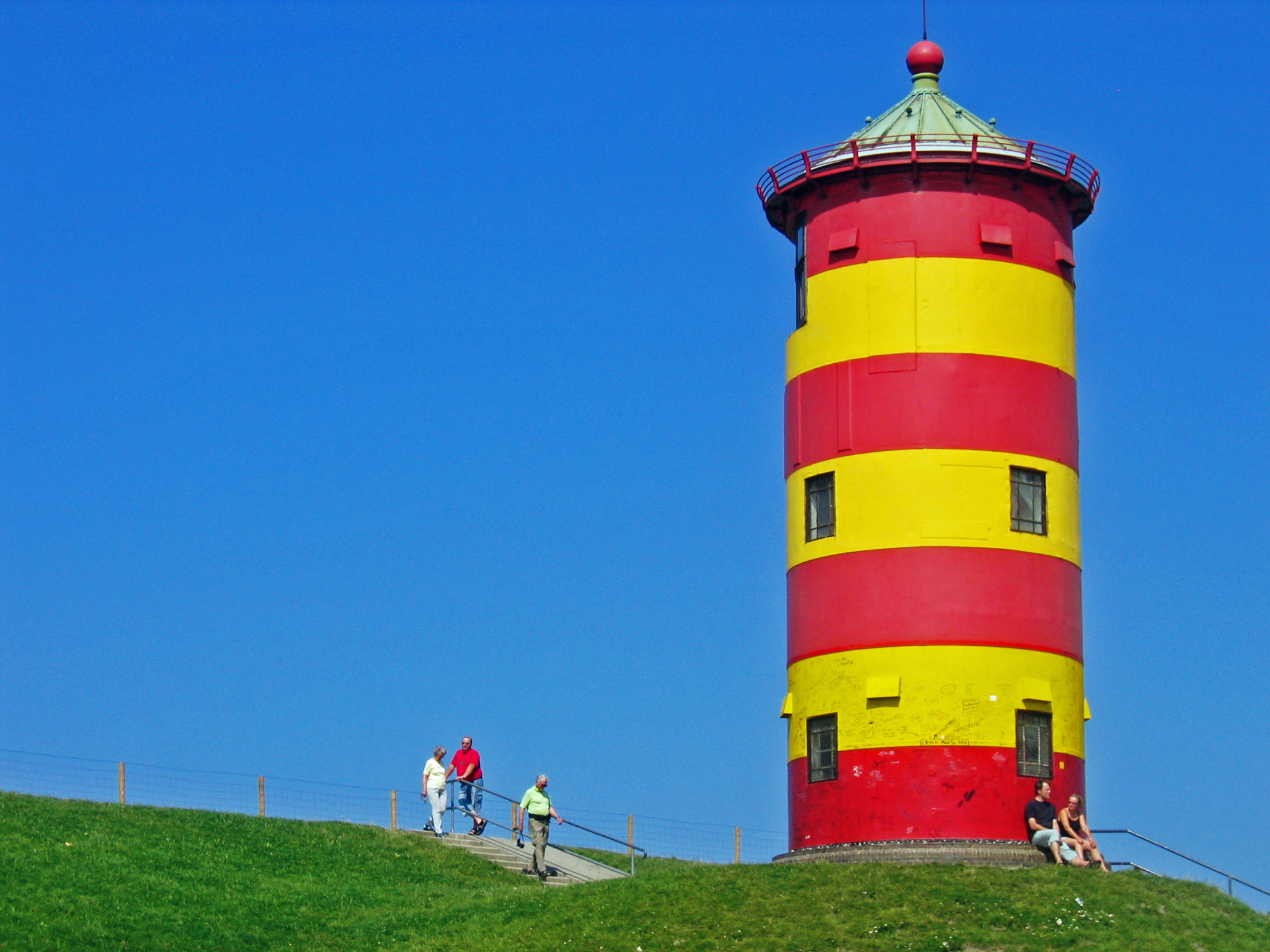 Lighthouse of Pilsum (German North Sea Coast - Western Part)